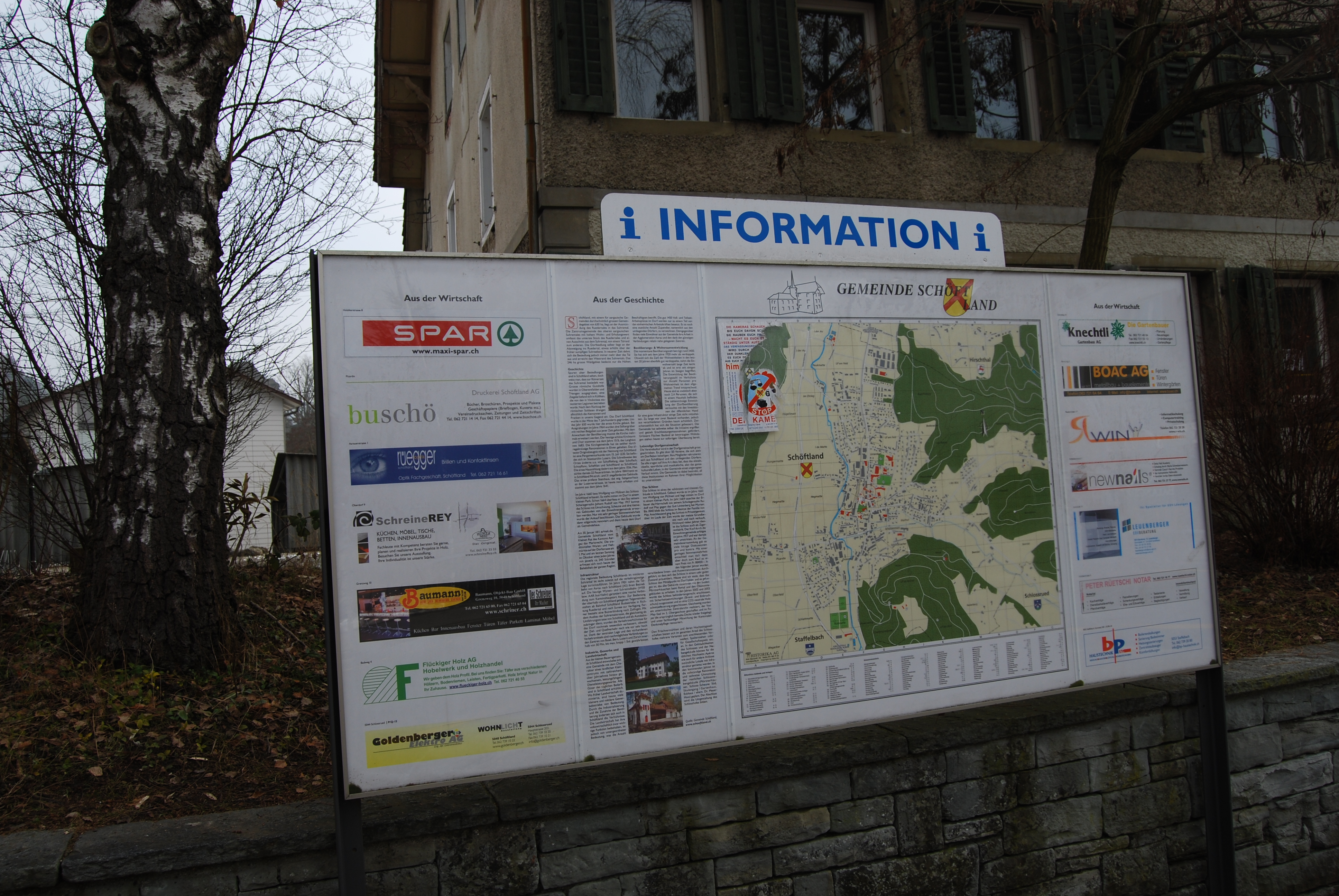 Touristic information pannel Schöftland, canton of Aargau, SwitzerlandEsperanto: Turisma informpanelo en Schöftland, Kantono Argovio, Svislando